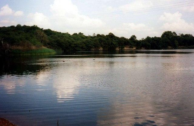 Mitre Pool, one of the Bishops Bowl Lakes at Harbury, Warwickshire